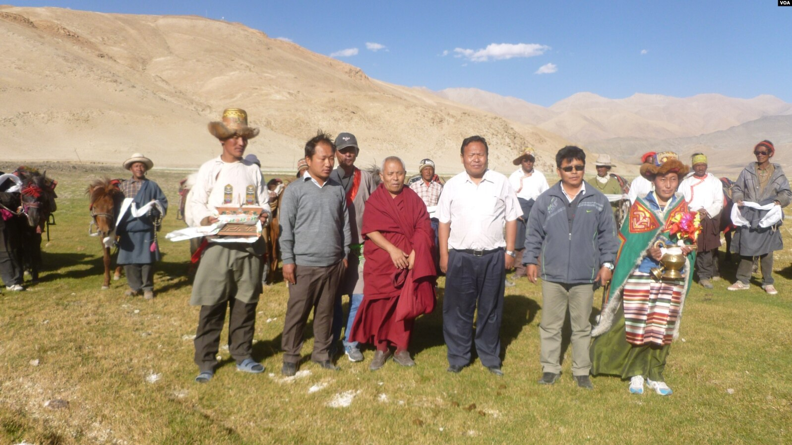 On a recent inspection tour to Jangthang, located about 300 km to Leh, Tibetan Member of Parliament Acharya Yeshi Phuntsok and Sonam Gyaltsen witnessed Jangthang nomadic lifestyle, and its challenges and difficulties.